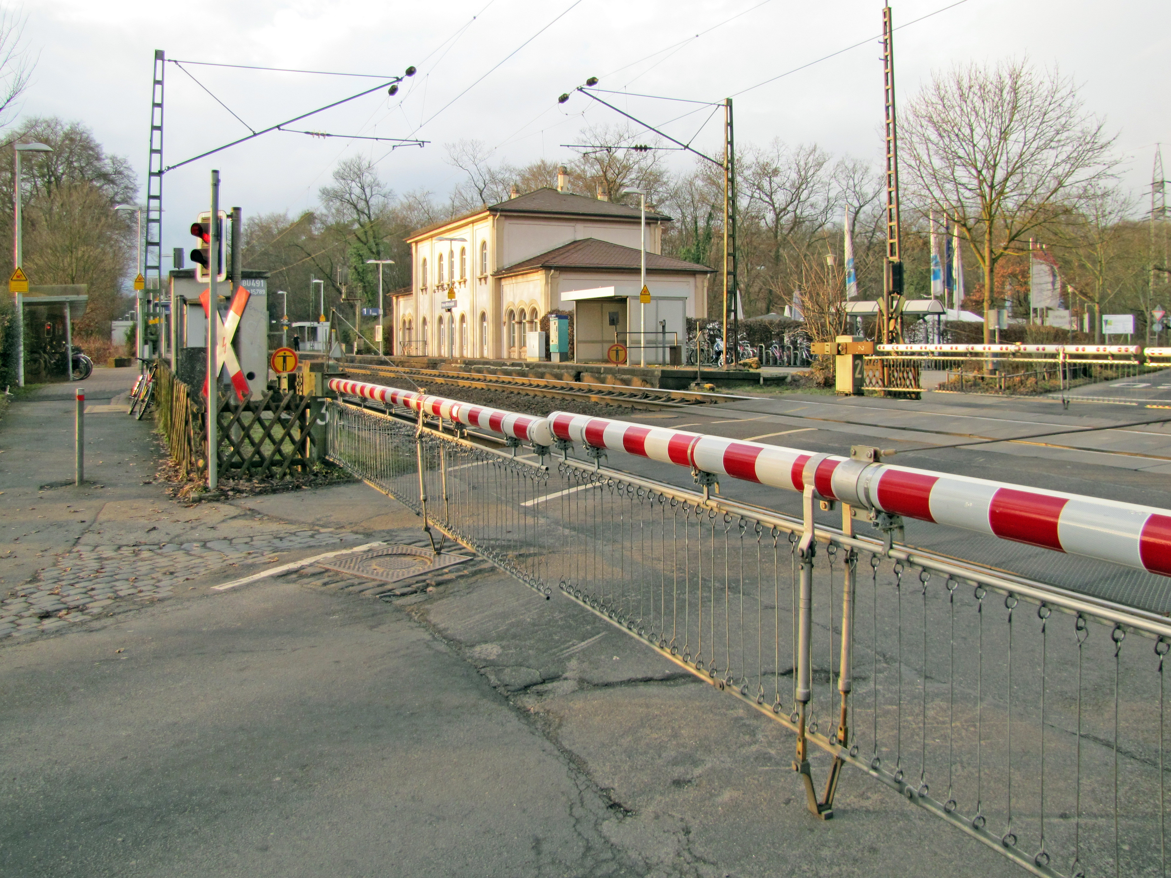 Train station in Hanau-Wilhelmsbad, Hesse, Germany.